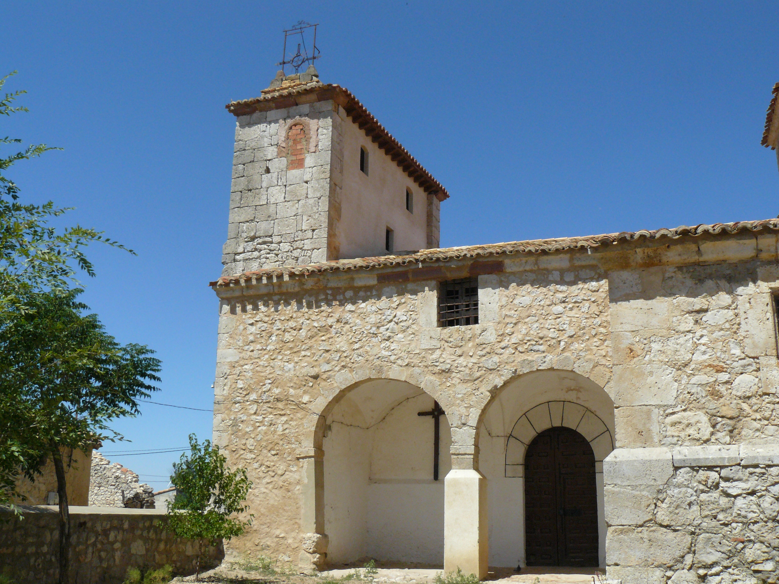 Google Maps - Google Earth